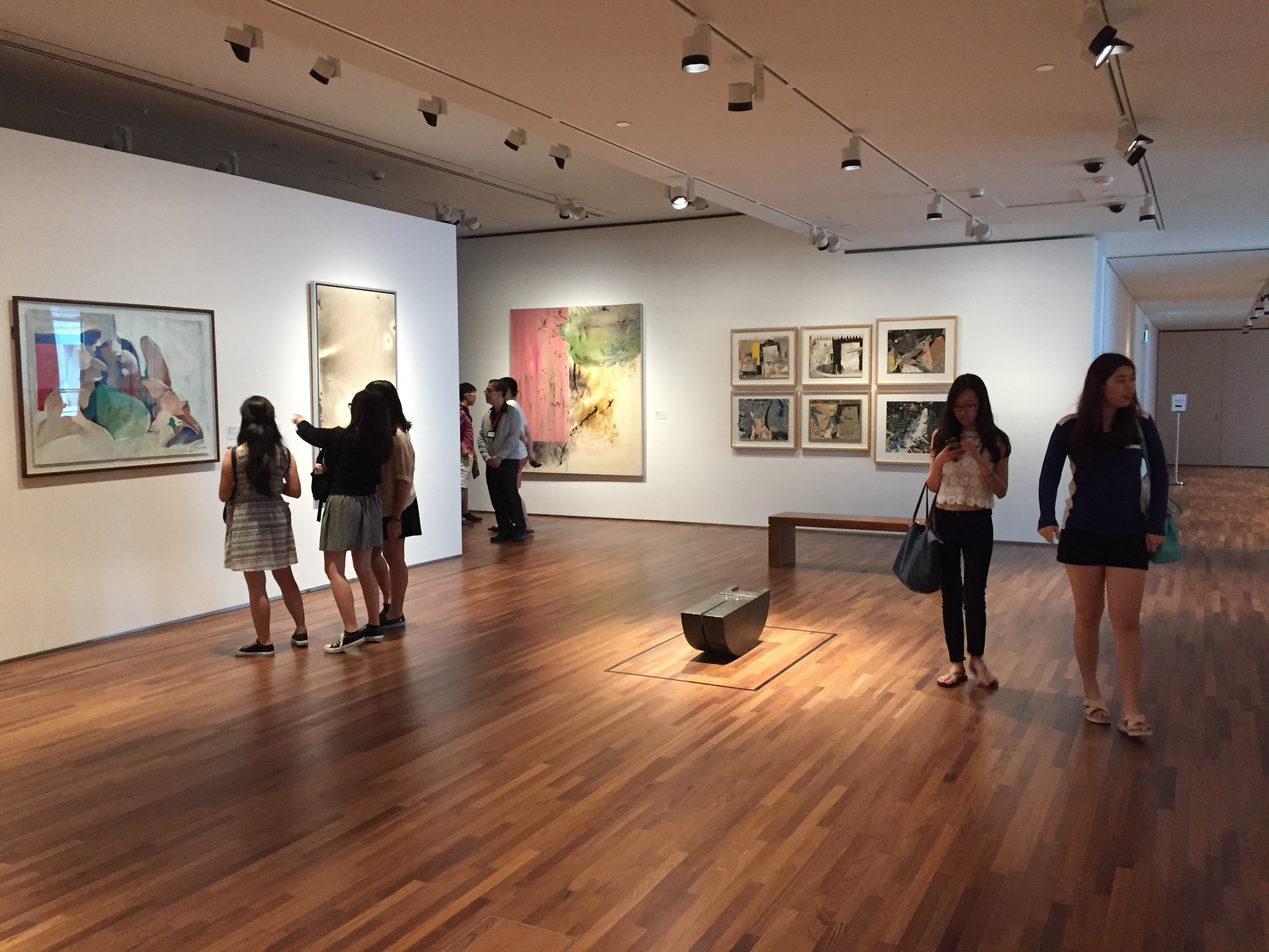 Gallery 1 of the DBS Singapore Gallery on Level 2 of the City Hall Wing of the National Gallery Singapore.